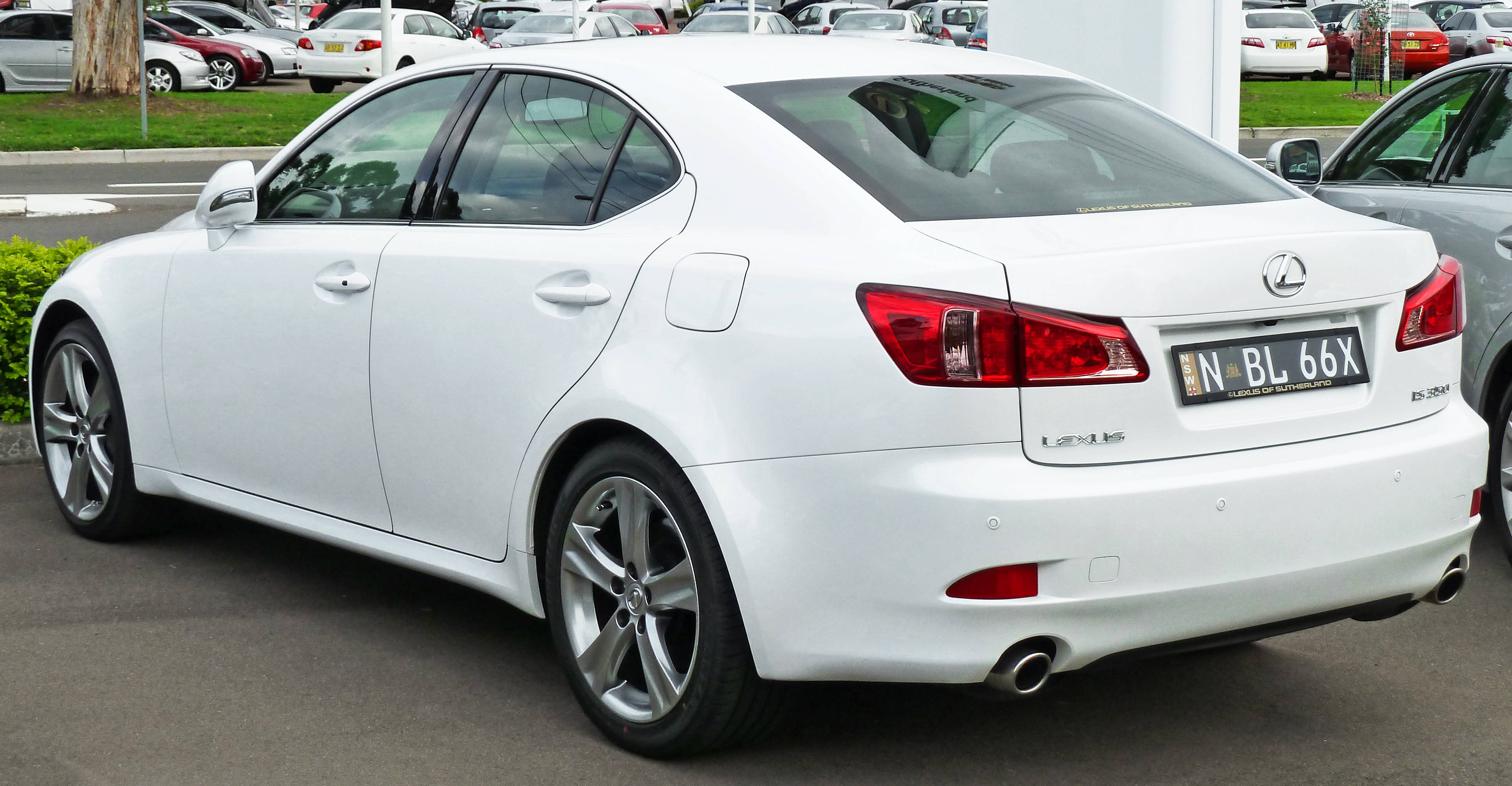 2010–2011 Lexus IS 350 (GSE21R MY11) Sports Luxury sedan. Photographed at Lexus of Sutherland, Kirrawee, New South Wales, Australia.